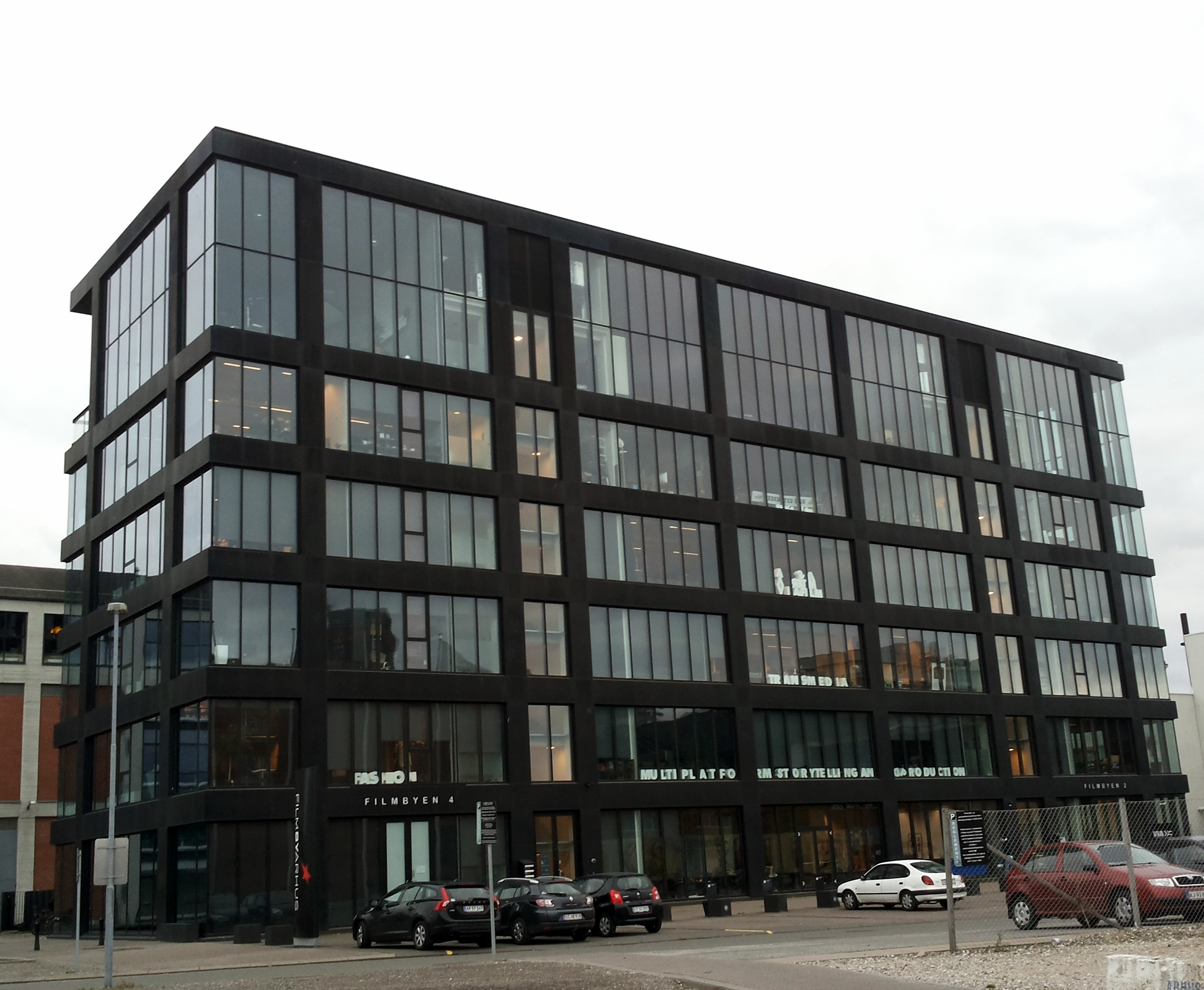 Filmbyen